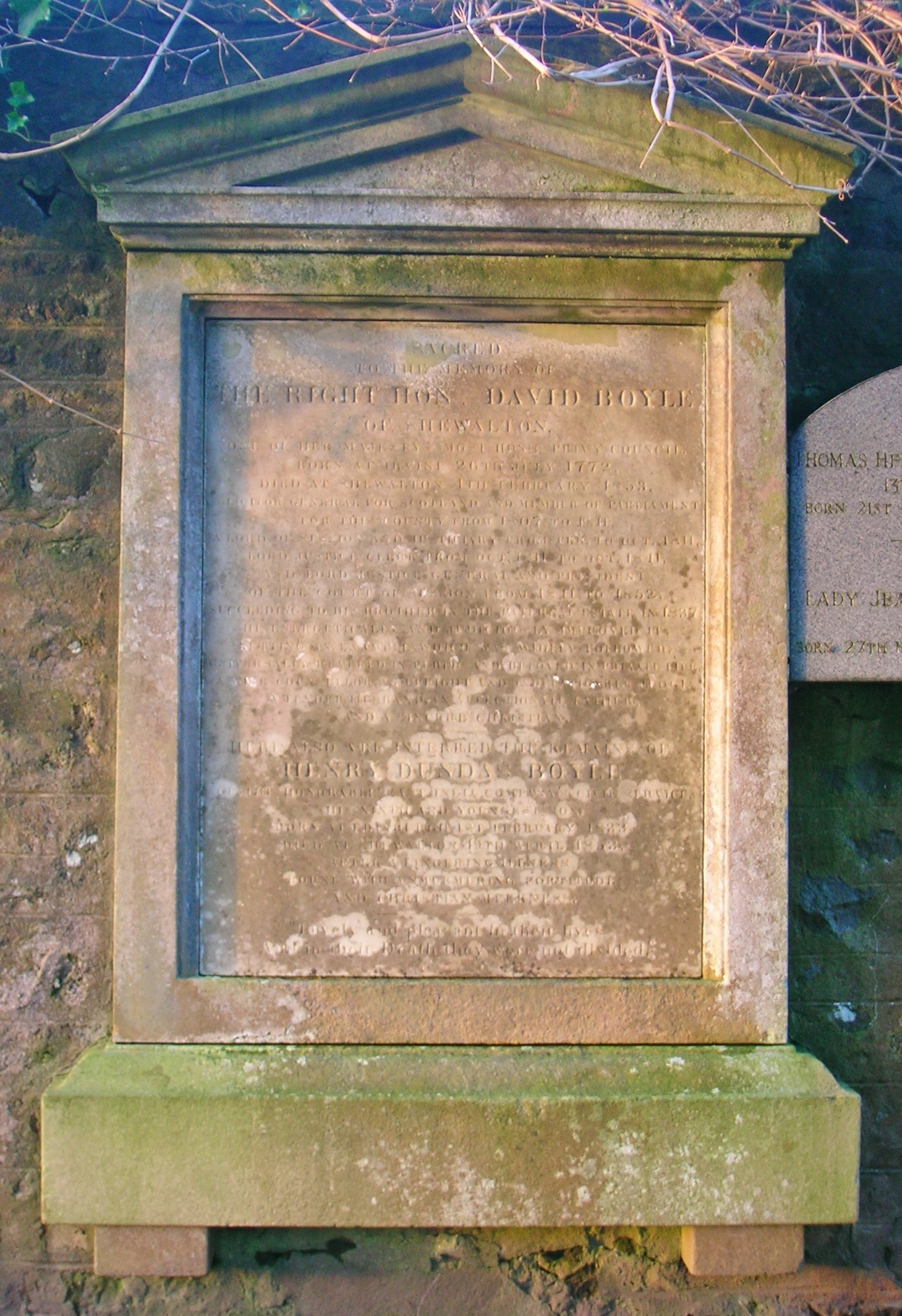 David Boyle, twice married and was M.P. for Ayrshire in 1793, Lord Justice-General of Scotland and Lord President of the Court Session in 1841. Dundonald Cemetery, Ayrshire, Scotland.